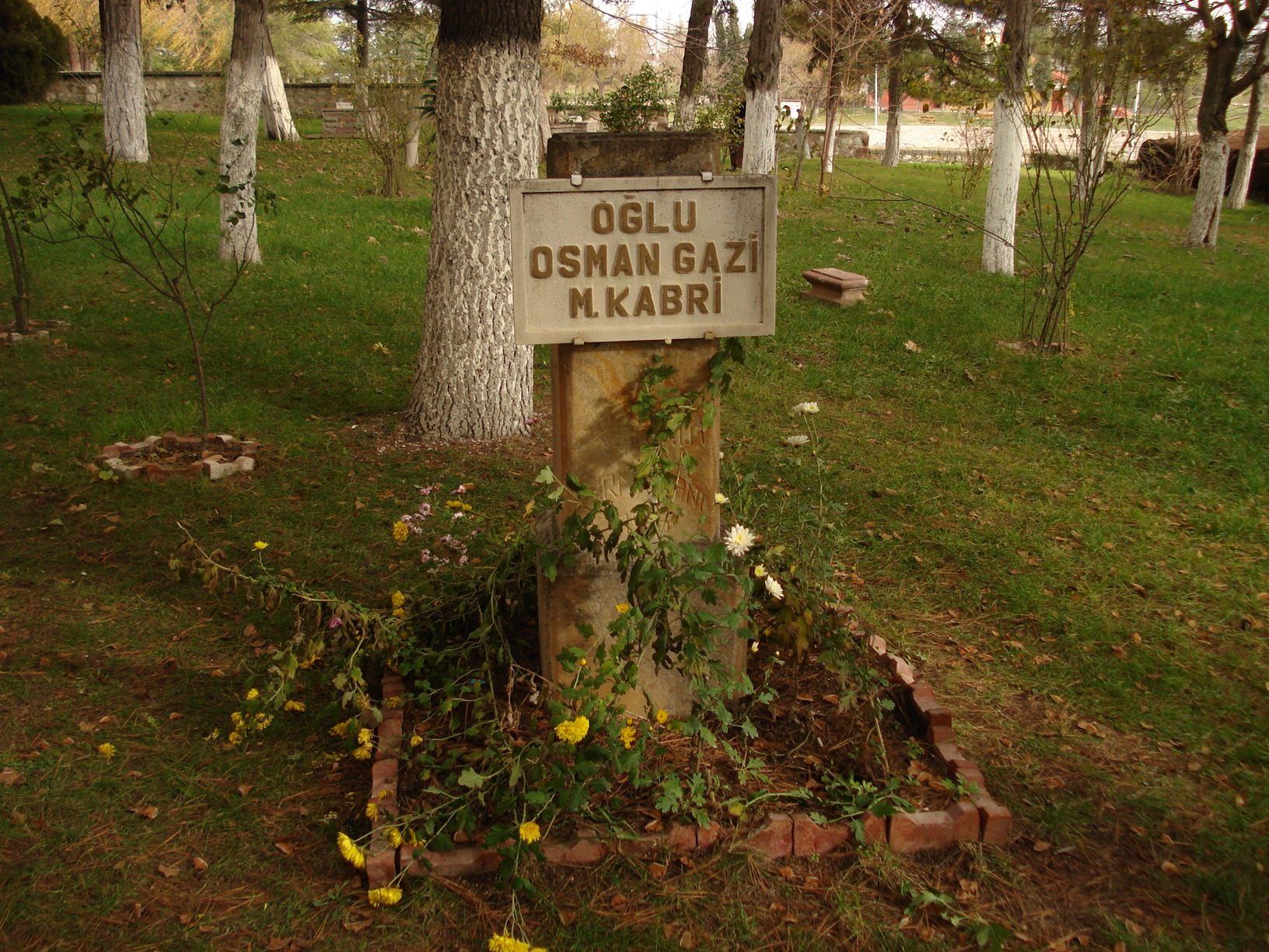 Ertuğrul's son Osman I's grave in the garden of the Ertuğrul Gazi's grave in Söğüt